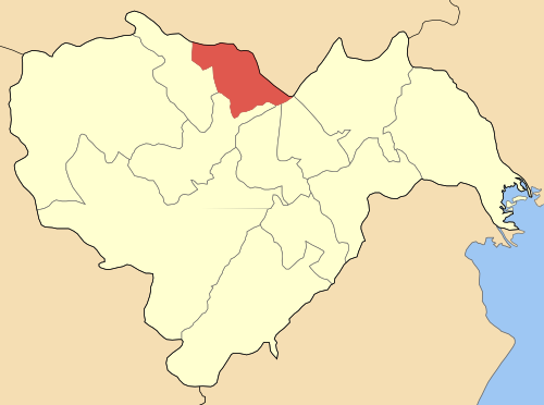 Locator map of Eirinoupolis municipality (Δήμος Ειρηνούπολης) at Imathias perfecture, Greece.